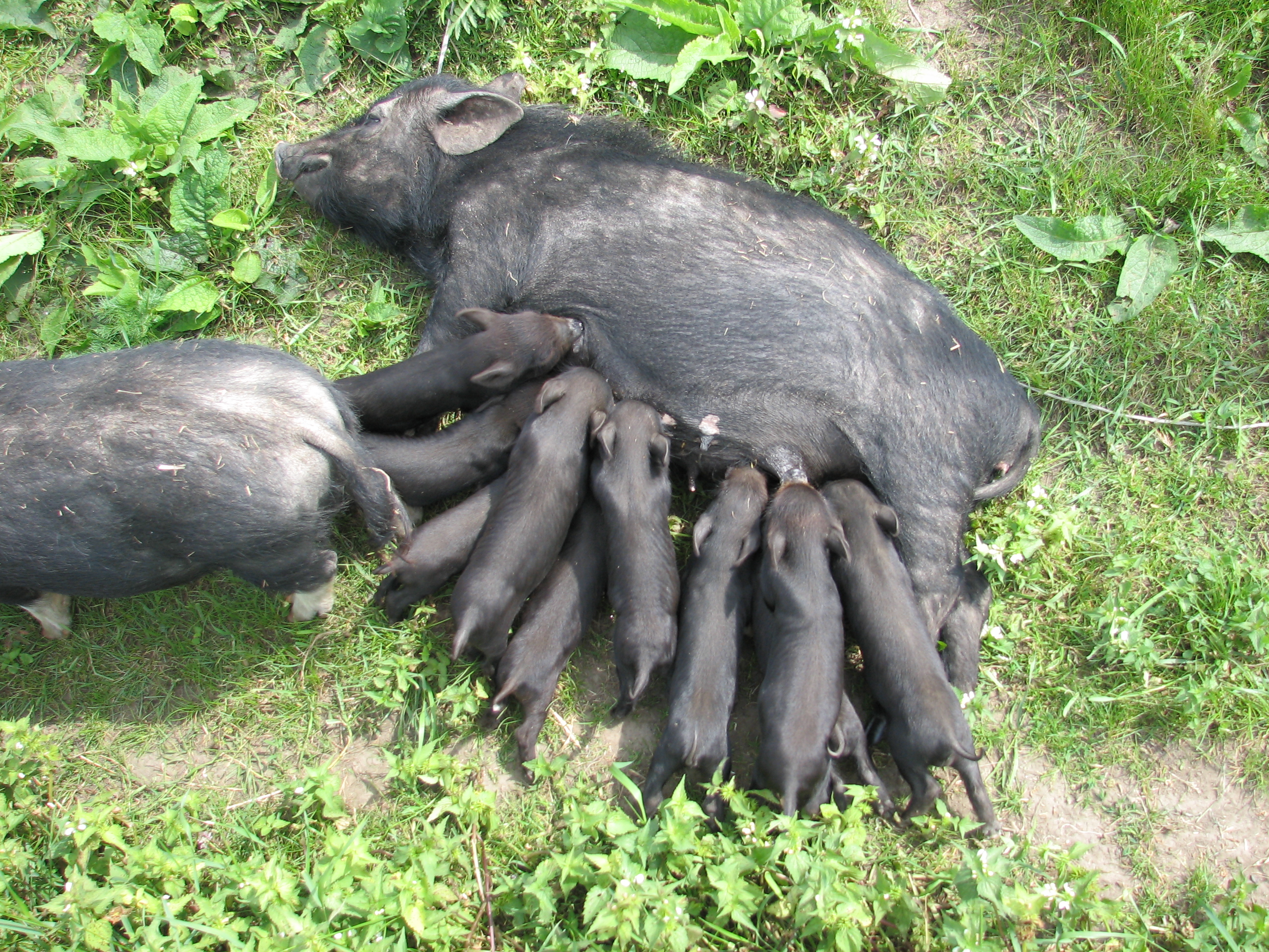 Black pig